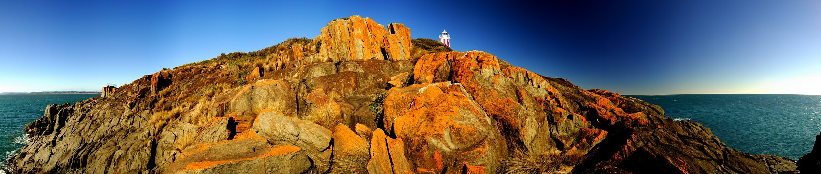 Mersey Bluff and river mouth of the Mersey River into the Bass Strait.